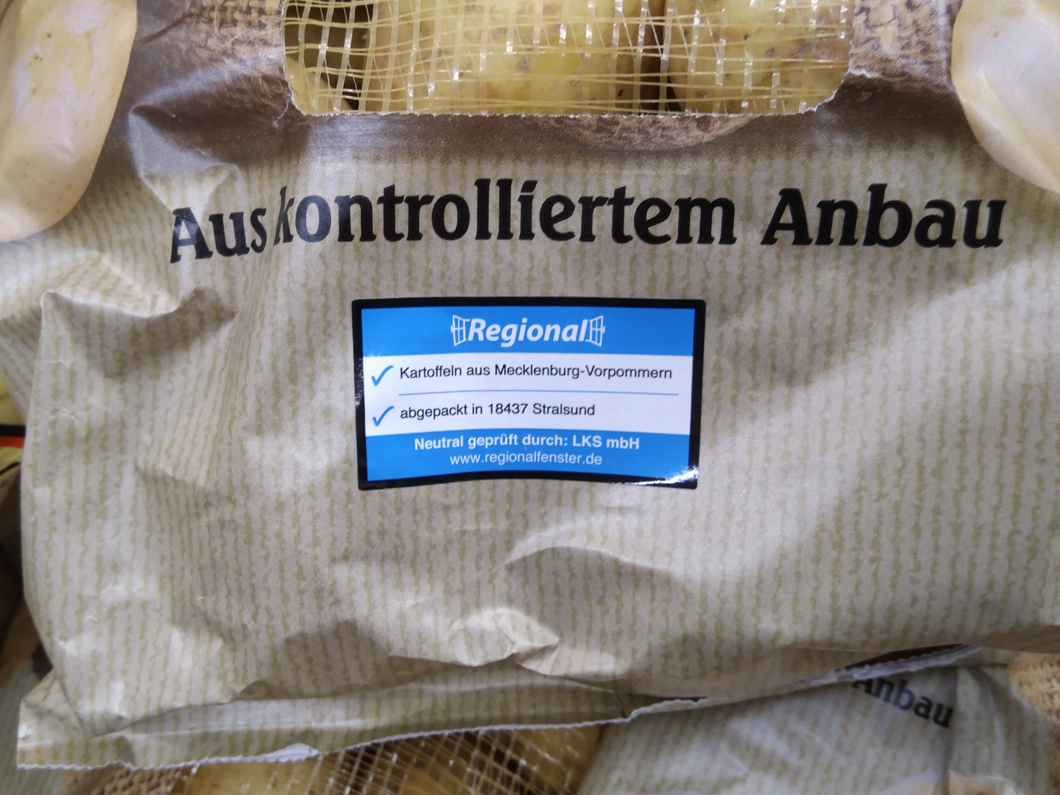 Regional food label Regionalfenster (regional window) on potatoes from Mecklenburg-Western Pomerania, Germany.